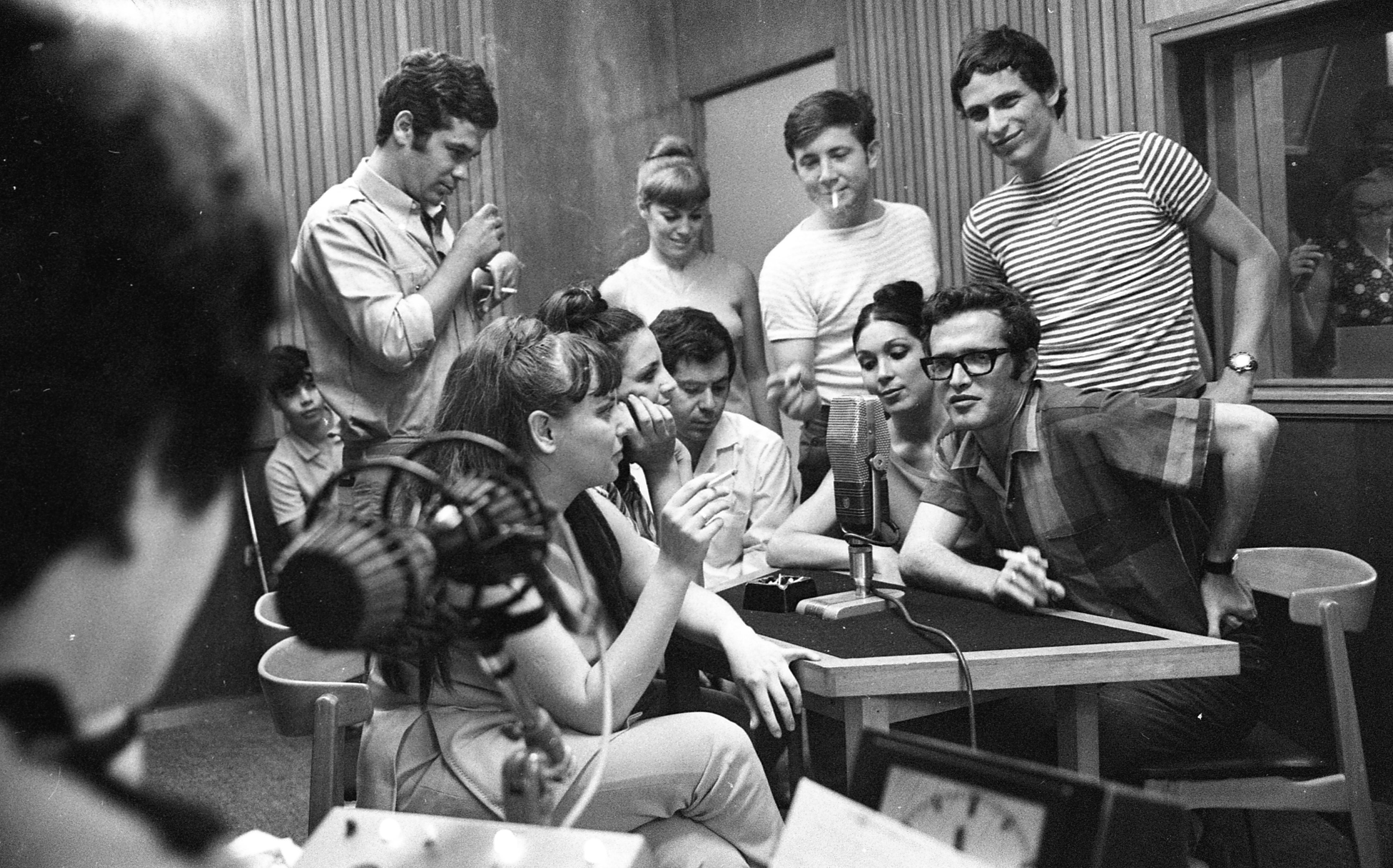 Entertainer Ehud Manor in his night radio show.